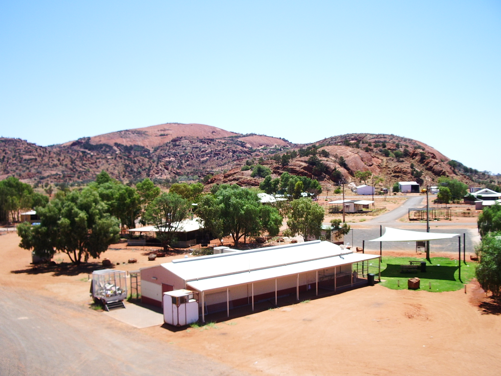 Watarru Anangu Community, South Australia. Community store in foreground, with shaded grassed area, and Mt Lindsay in the background.